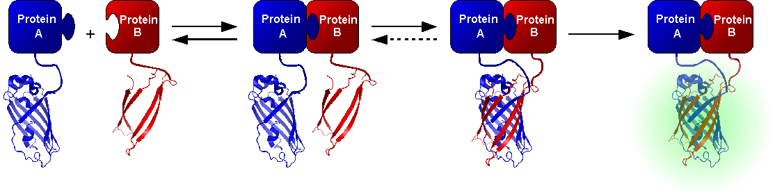 Principle of bimolecular fluorescence complementation (BiFC) detection of protein-protein interactions. Proteins A and B interact and thus bring the fragments of a fluorescent protein to close proximity (reaction step 1). Fragments complement to a full protein (reaction step 2) which shows fluorescence after maturation (reaction step 3).